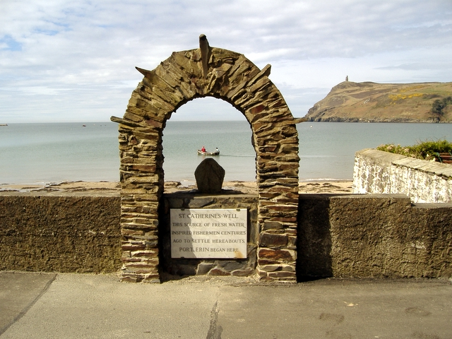 St Catherine's Well, Shore road, Port Erin The plaque says it all.